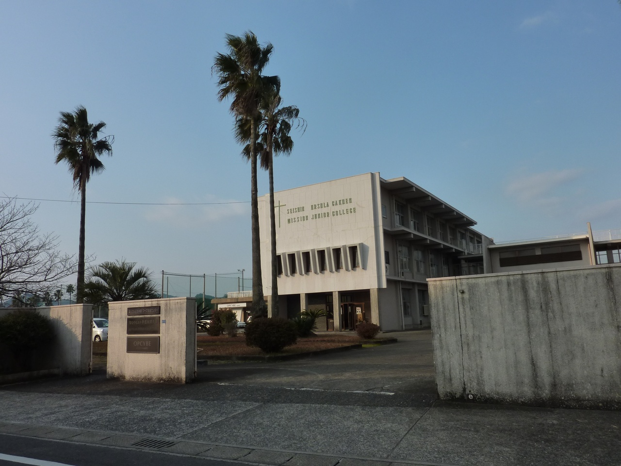 Seishin Ursula Gakuen Mission Junior College Entrance (Miyazaki, Japan)